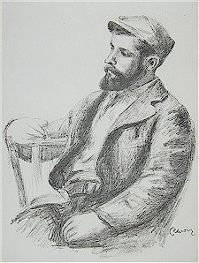 Lithograph for portrait of French painter Louis Valtat (1869-1952) circa 1904, who is associated with the early Fauvism movement.